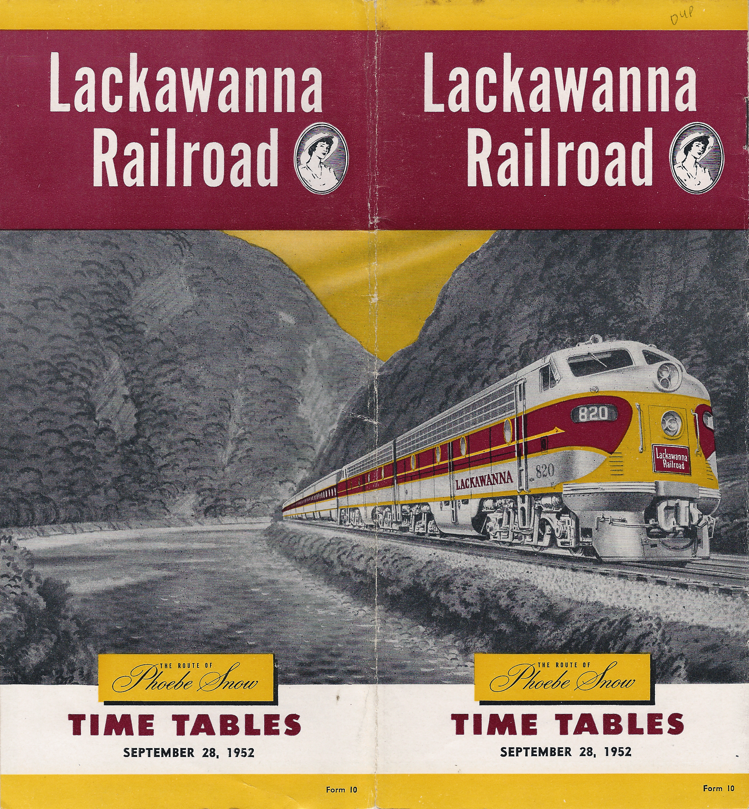 Lackawanna Railroad Form 10 passenger schedules showing DL&W diesel equipment and "the route of Phoebe Snow"--my gown stays white from morn till night upon the Road of Anthracite.